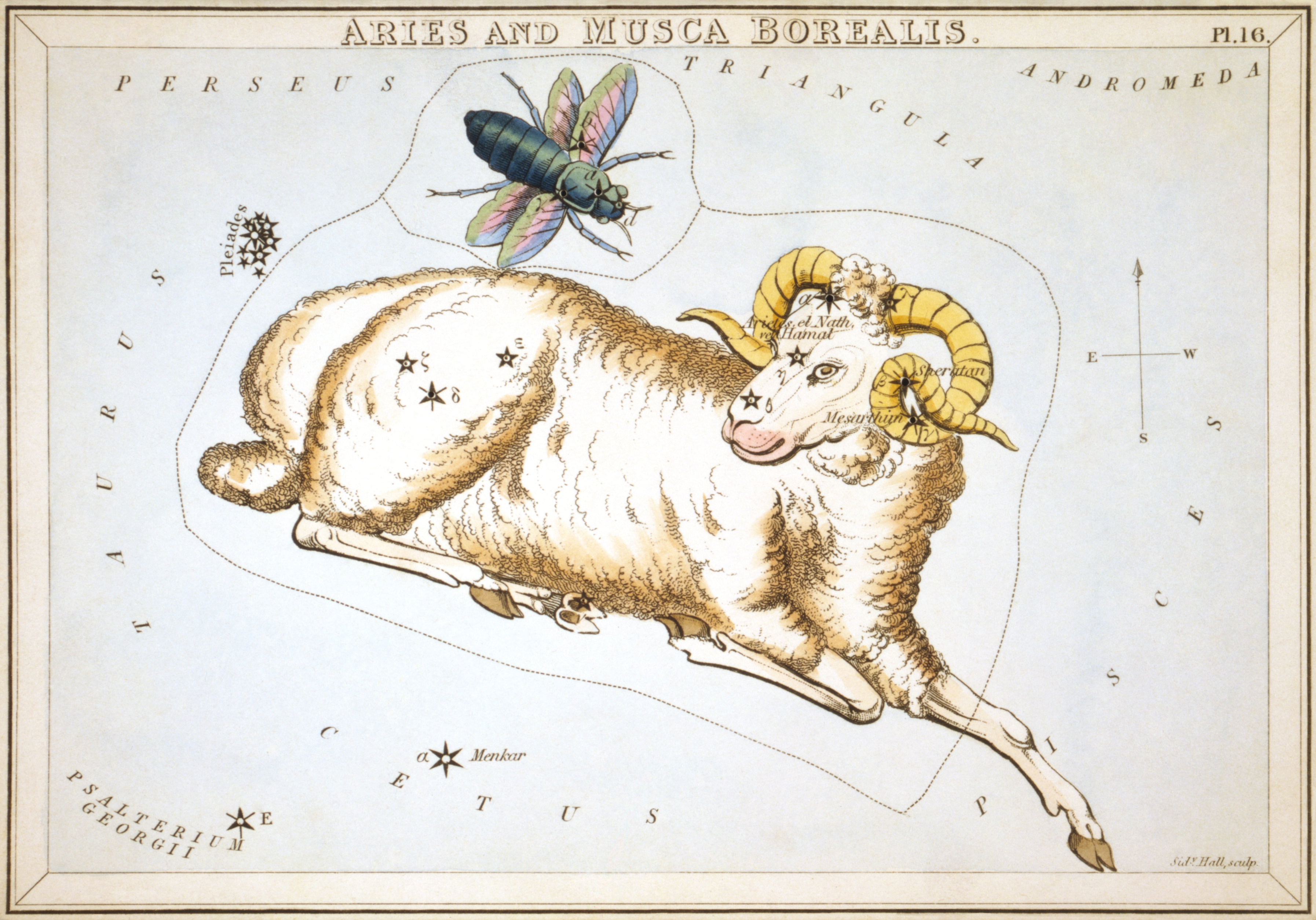 "Aries and Musca Borealis", plate 16 in Urania's Mirror, a set of celestial cards accompanied by A familiar treatise on astronomy ... by Jehoshaphat Aspin. London. Astronomical chart, 1 print on layered paper board : etching, hand-colored.